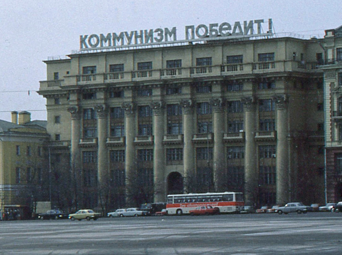 Intourist building, Prospekt Marksa (Marx Ave.), Moscow, 1984